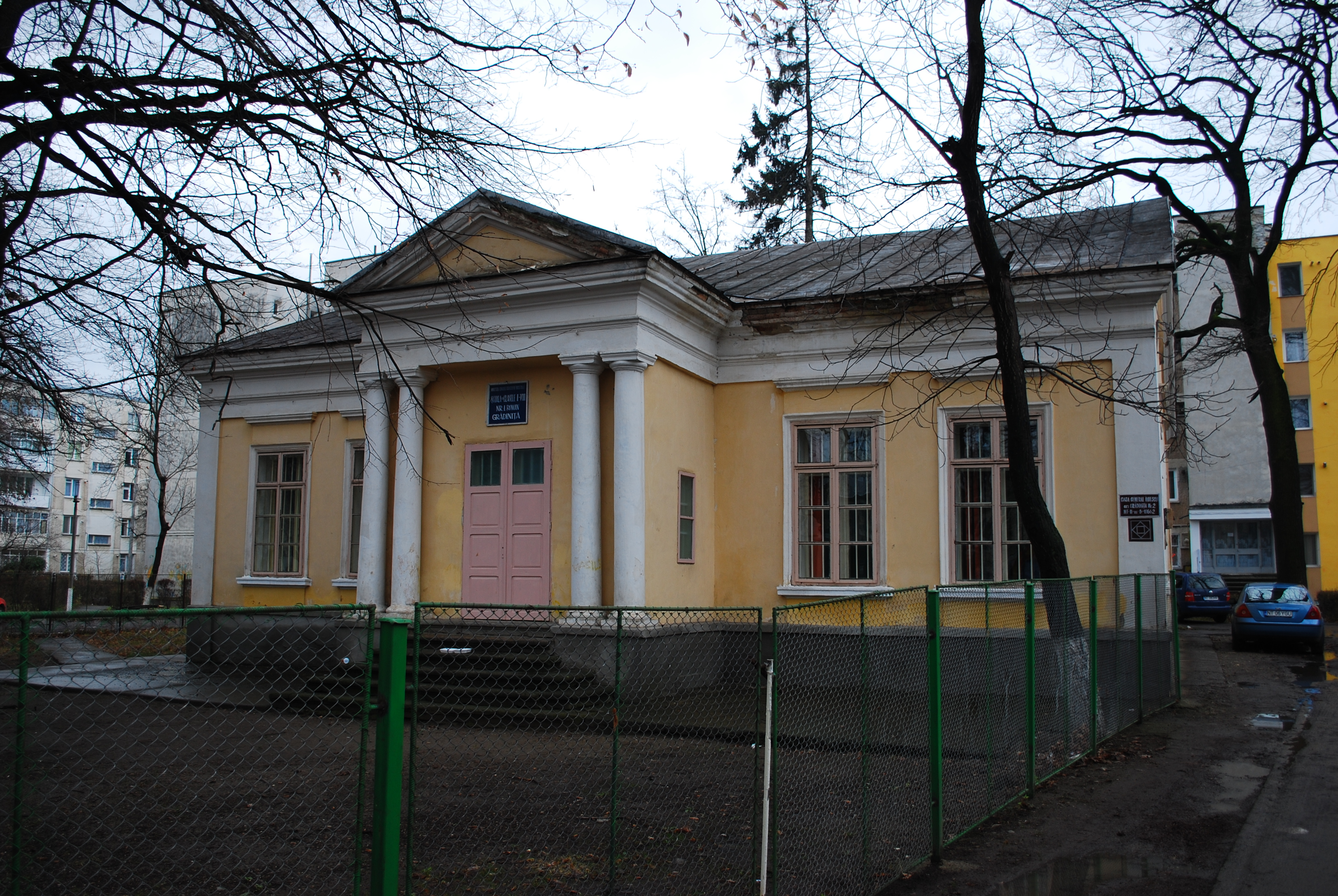 General Iliescu house in Roman, Romania; nowadays, a nursery schoolRomână: Casa general Iliescu, azi Grădiniţa nr. 2 din Roman, judeţul Neamţ, România